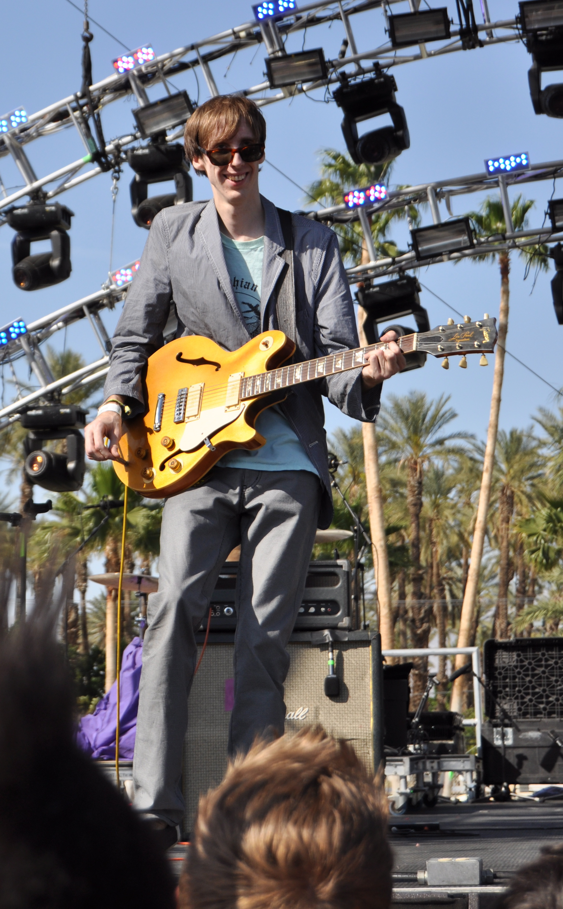 Flickr Tags: Coachella Music Festival 2010 Concert Performance Deerhunter Bradford Cox Guitar Guitarist Outdoor Theatre April 18.